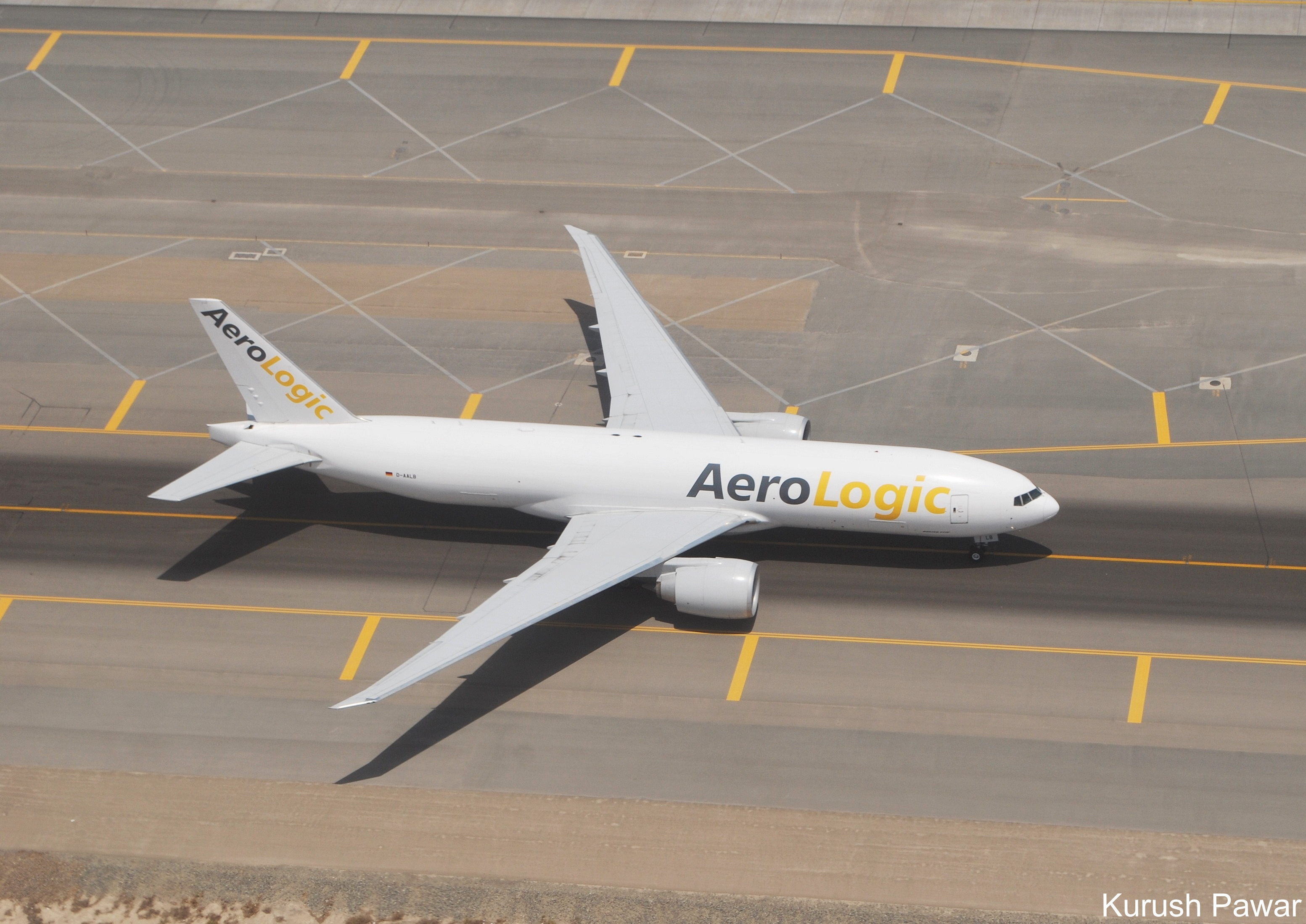 Registration: D-AALB Airline: AeroLogic Aircraft: Boeing 777-FZN Construction Number (MSN): 36002 Delivery: 16-07-2009 Flight Details: Flight number unknown / Halle Airport (LEJ) - Dubai International Airport (DXB)